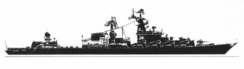 Profile of a Soviet Slava-class (Project 1164 Atlant) guided missile cruiser.